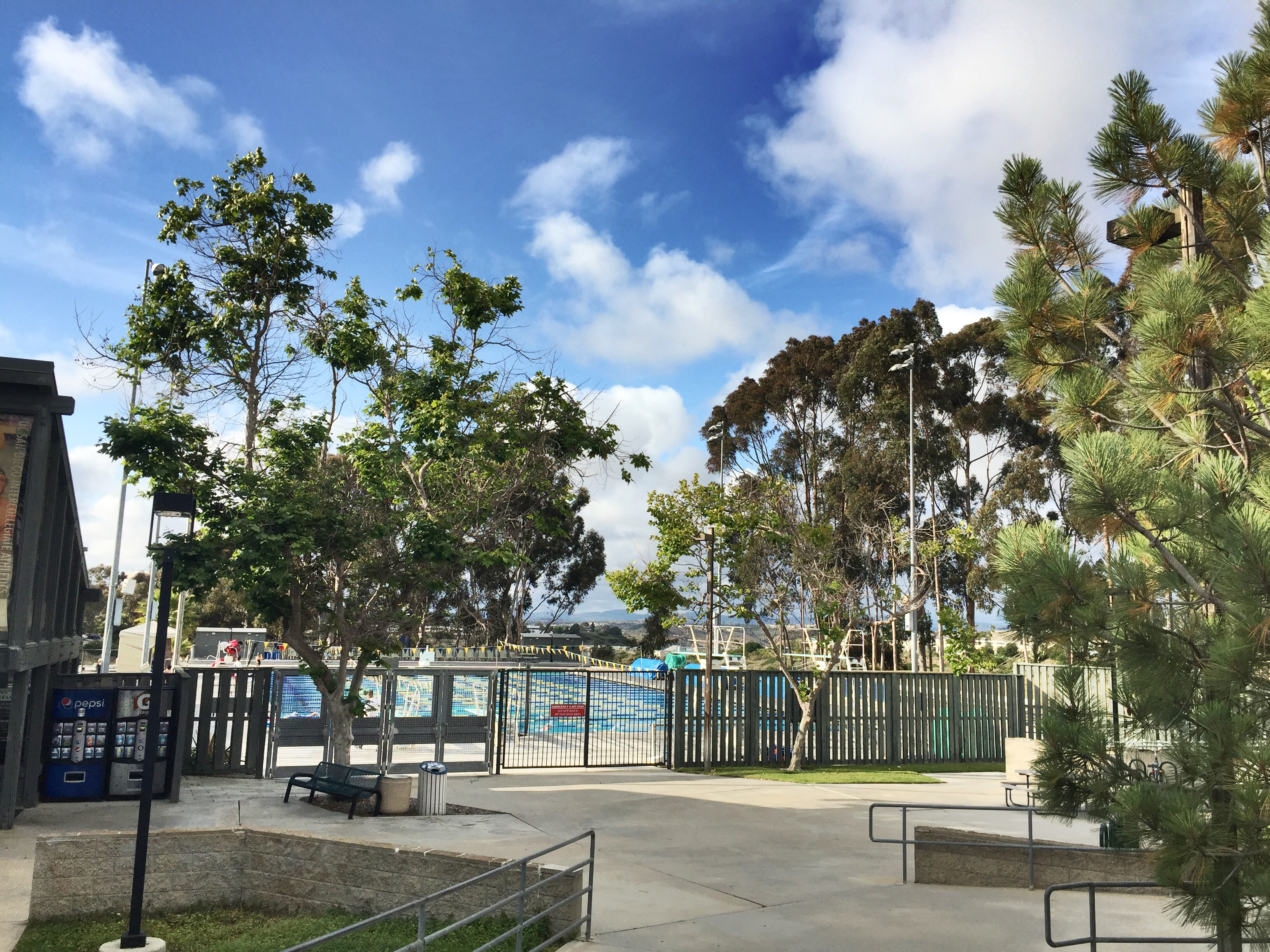 The complex entrance and east pool at Canyonview Aquatics Center, University of California, San Diego in La Jolla, California.